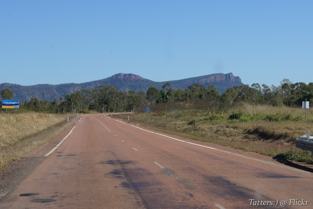 Queensland trip 2011